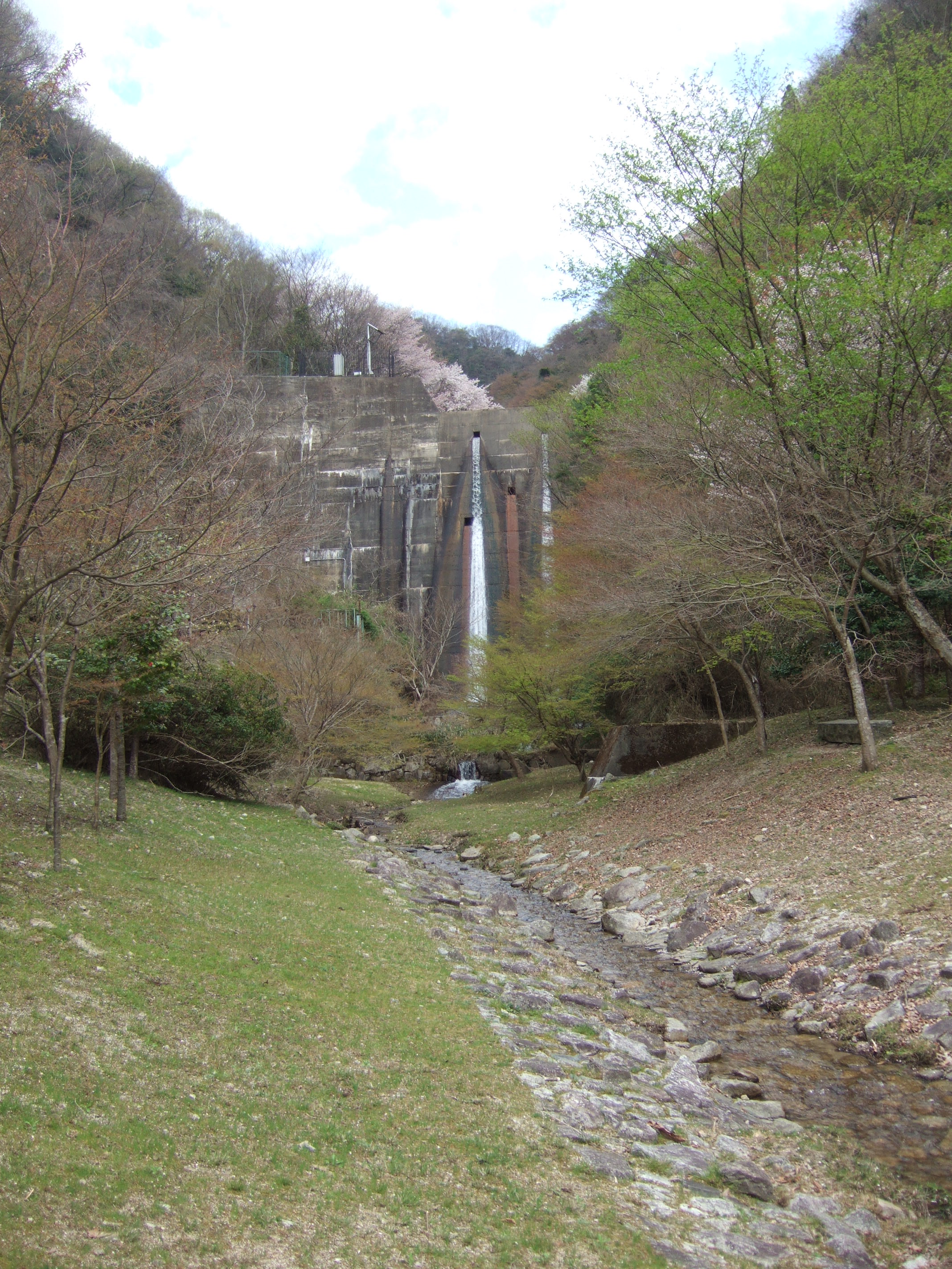 Check dam on the Shugaku-in Otowa river (修学院音羽川) in Kyoto.